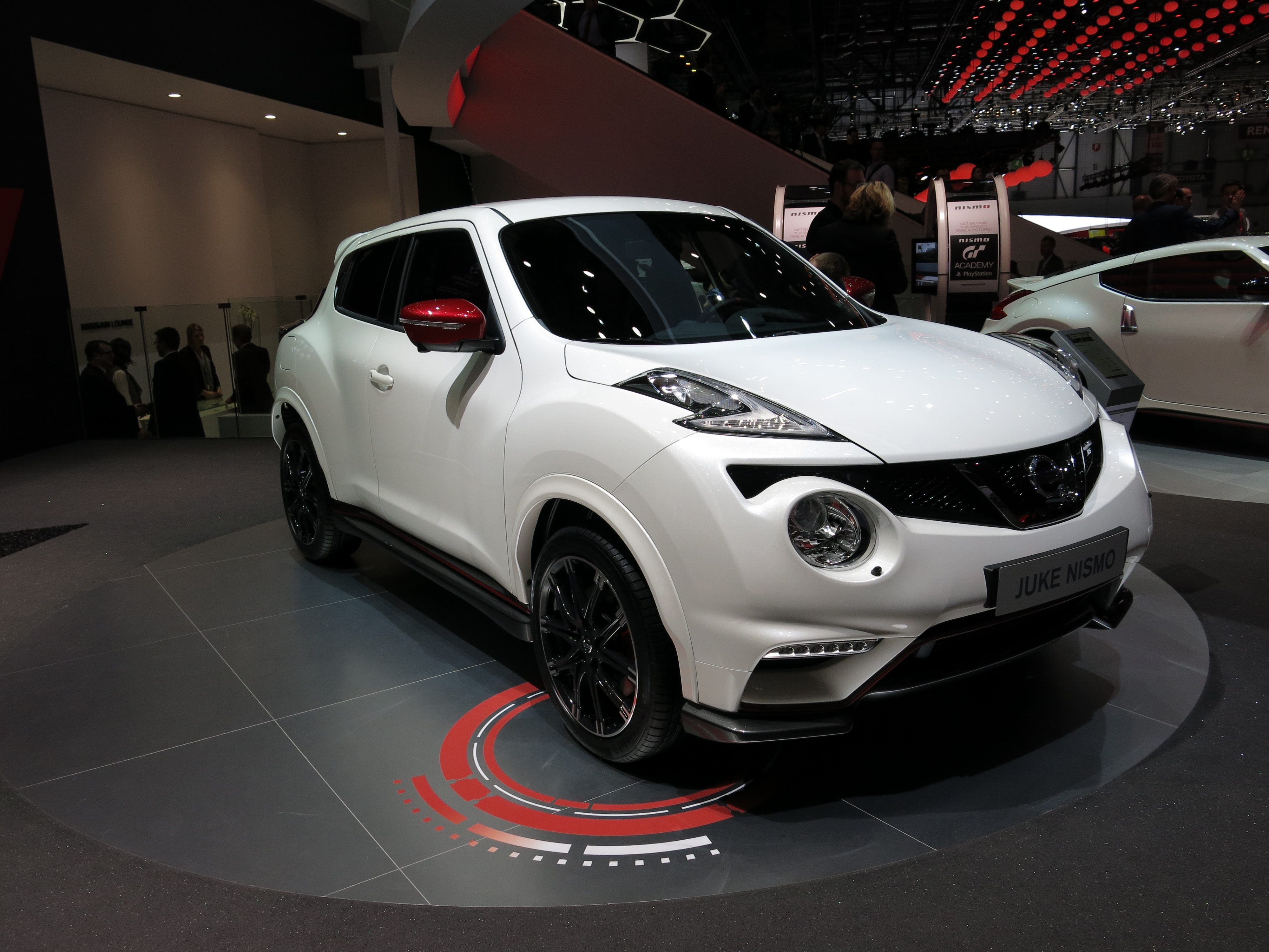 Geneva Motor Show 2015 (photo taken on the first press day)